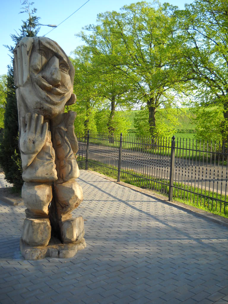 Statue of Kashubian mytical personage Grzenia located on the „Poczuj Kaszubskiego Ducha” tourist route (Strzepcz, Poland).